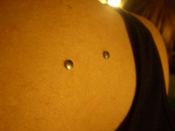 Healed microdermal implants in a girl's back.